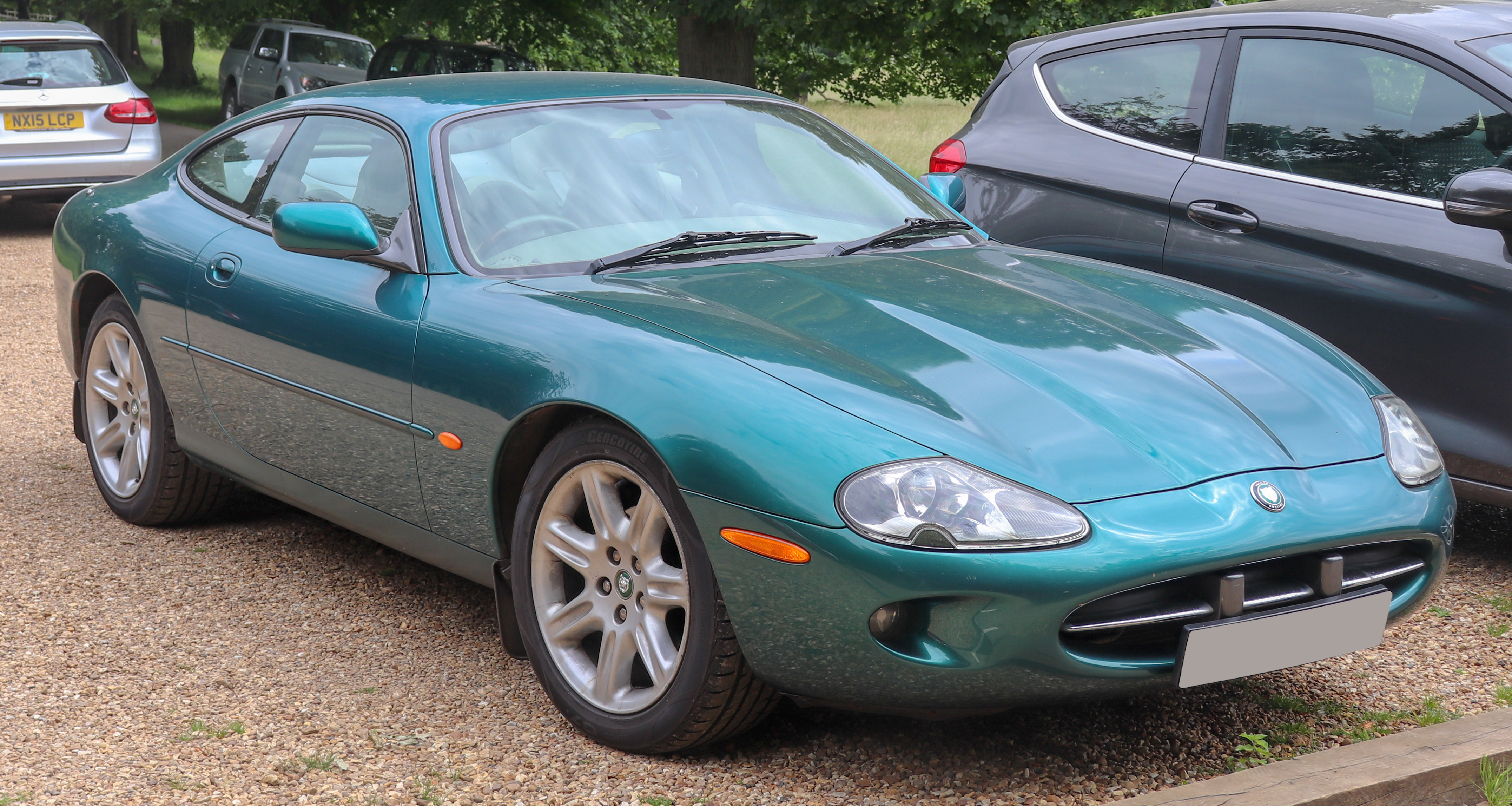 1997 Jaguar XK8 Coupe Automatic 4.0 Front Taken in Charlecote Park